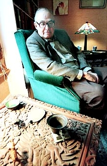 Richard G. Stern, American author and professor of literature (retired)